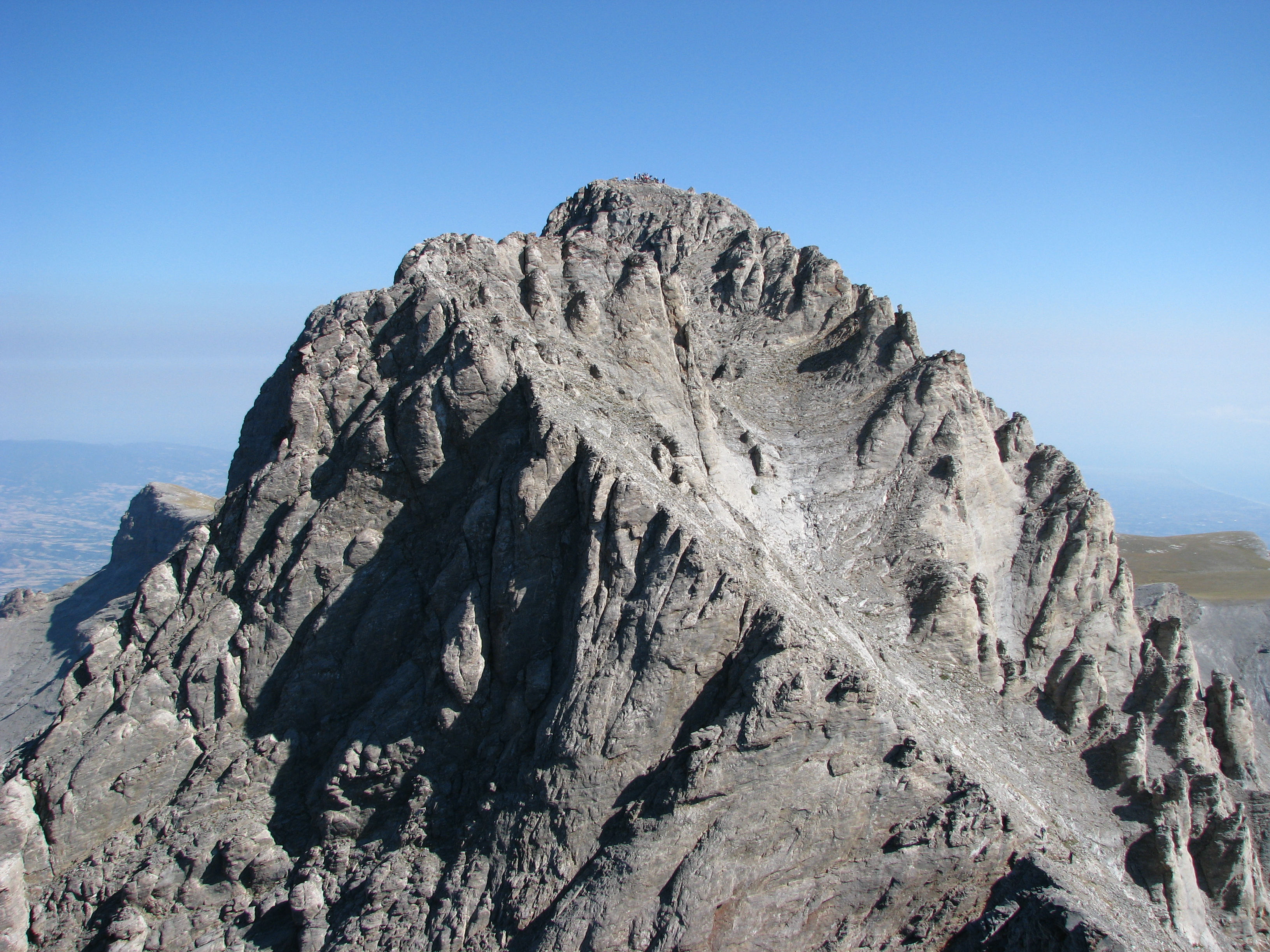 Mytikas peak of Mount Olympus, Greece. View from Skala peak.